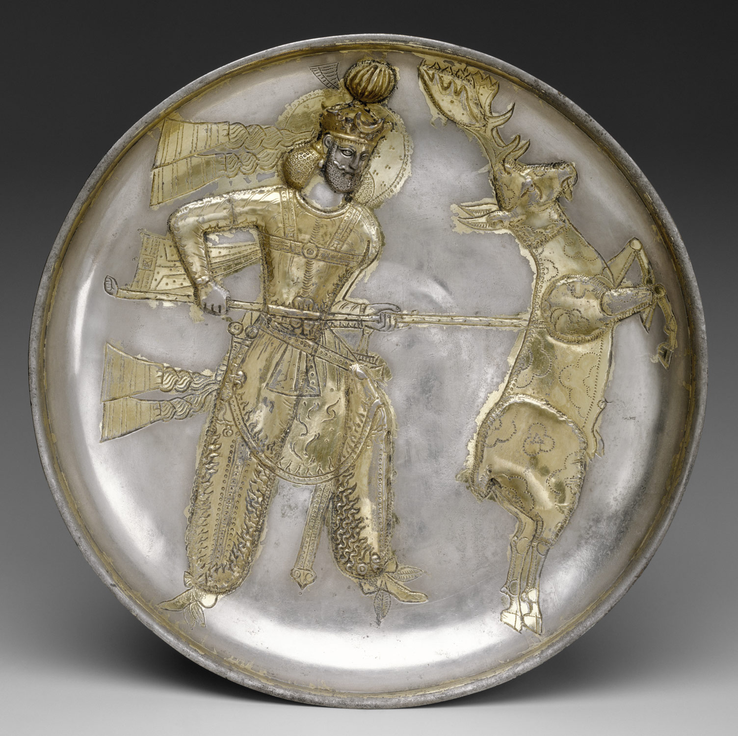 Plate, the king Yazdgard I, slaying a stag, Sasanian artwork.